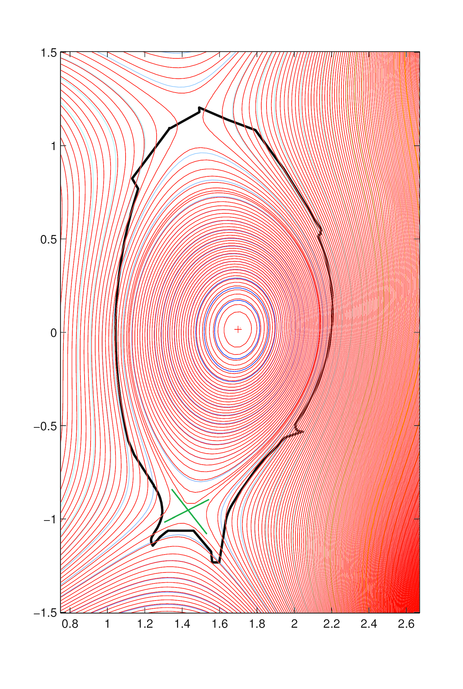 Equilibrium of ASDEX-Upgrade shot #30984, t=1.389s, with the X-point marked as a green cross.